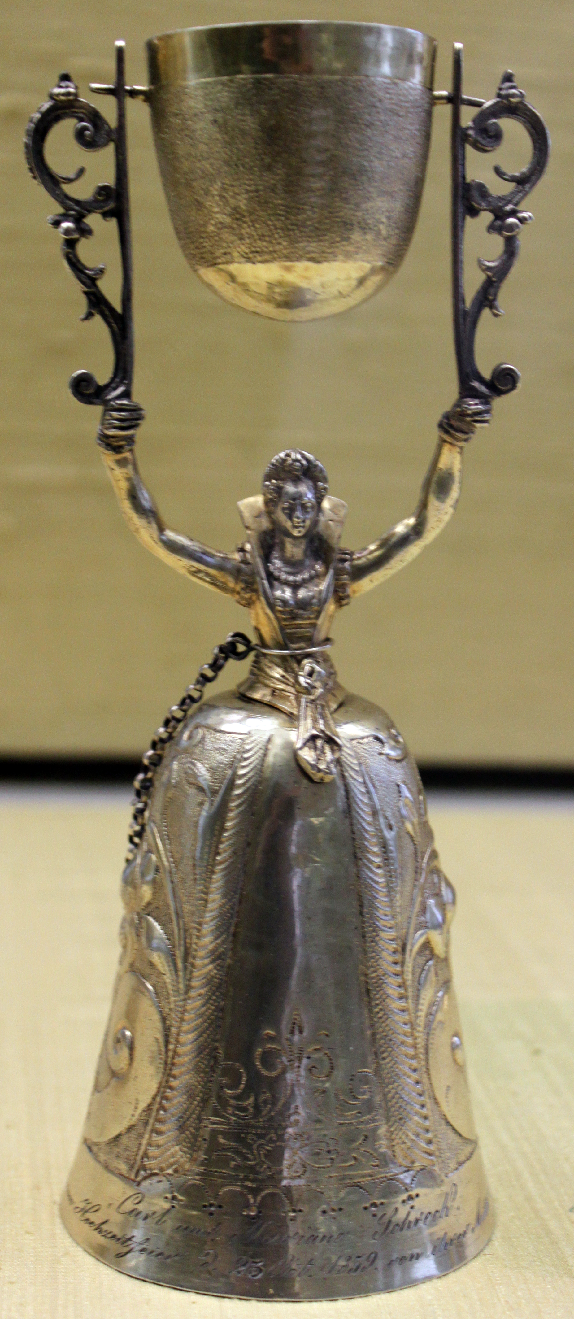 Bridal Cup; Caspar II Beutmüller, Nuremberg; 1619; Germanic National Museum in Nuremberg